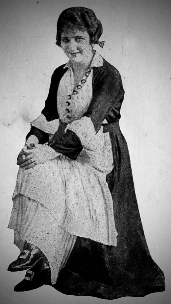 Still of Gretchen Lederer